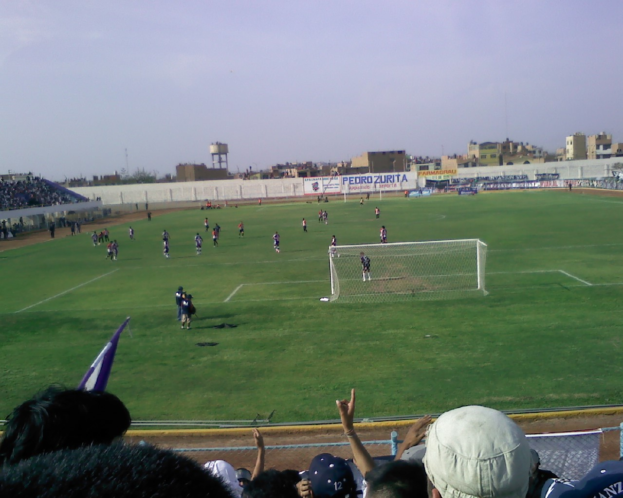 View from the South Stand of the Segundo Aranda Torres Stadium, in the middle of the game played between Total Chalaco and Alianza Lima.